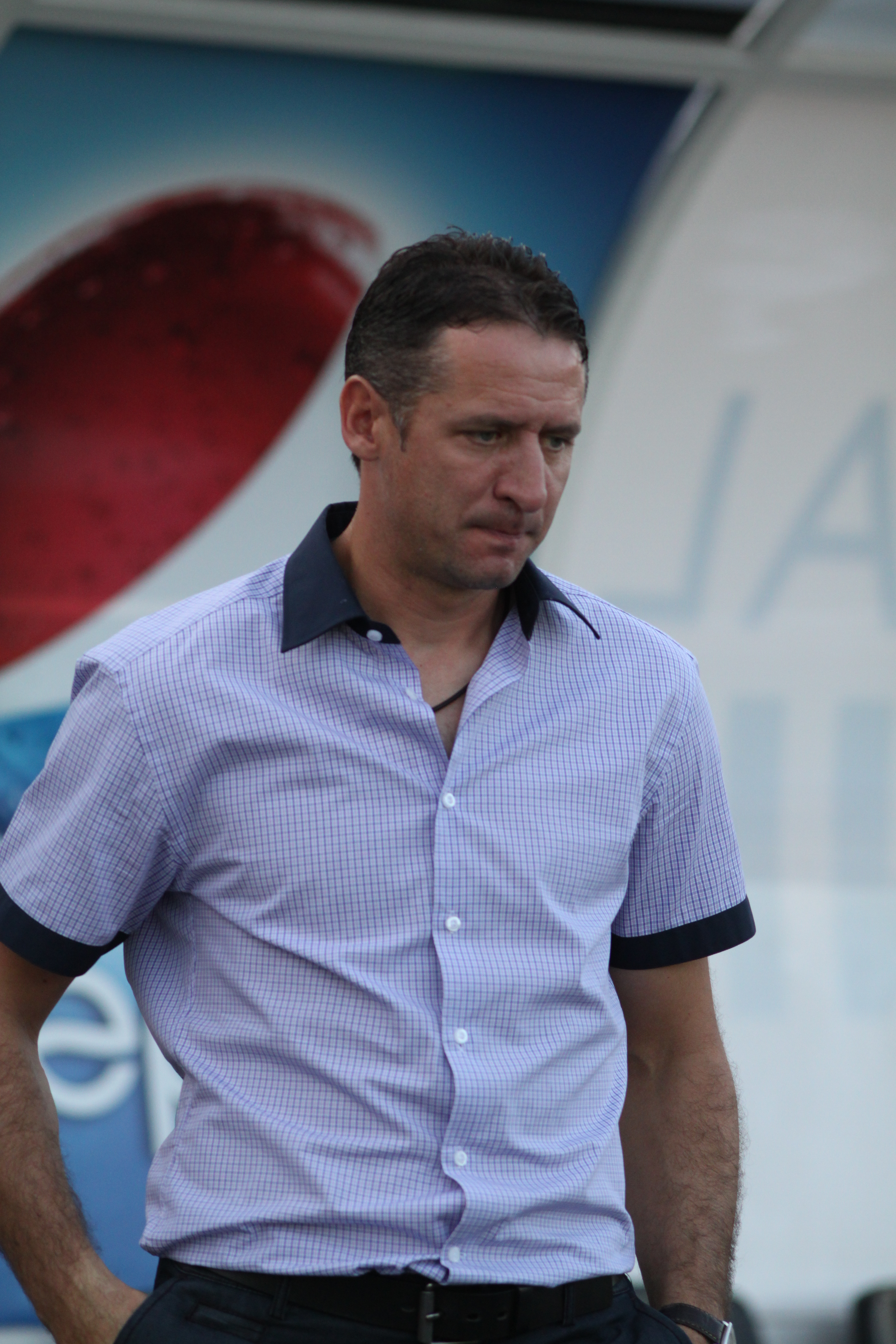 Martin Kushev - former bulgarian football player, who played for Slavia Sofia. Kushev has often been described as an old fashioned English-style centre forward due to his physical presence and outstanding aerial ability. Head coach in Slavia Sofia (211-).